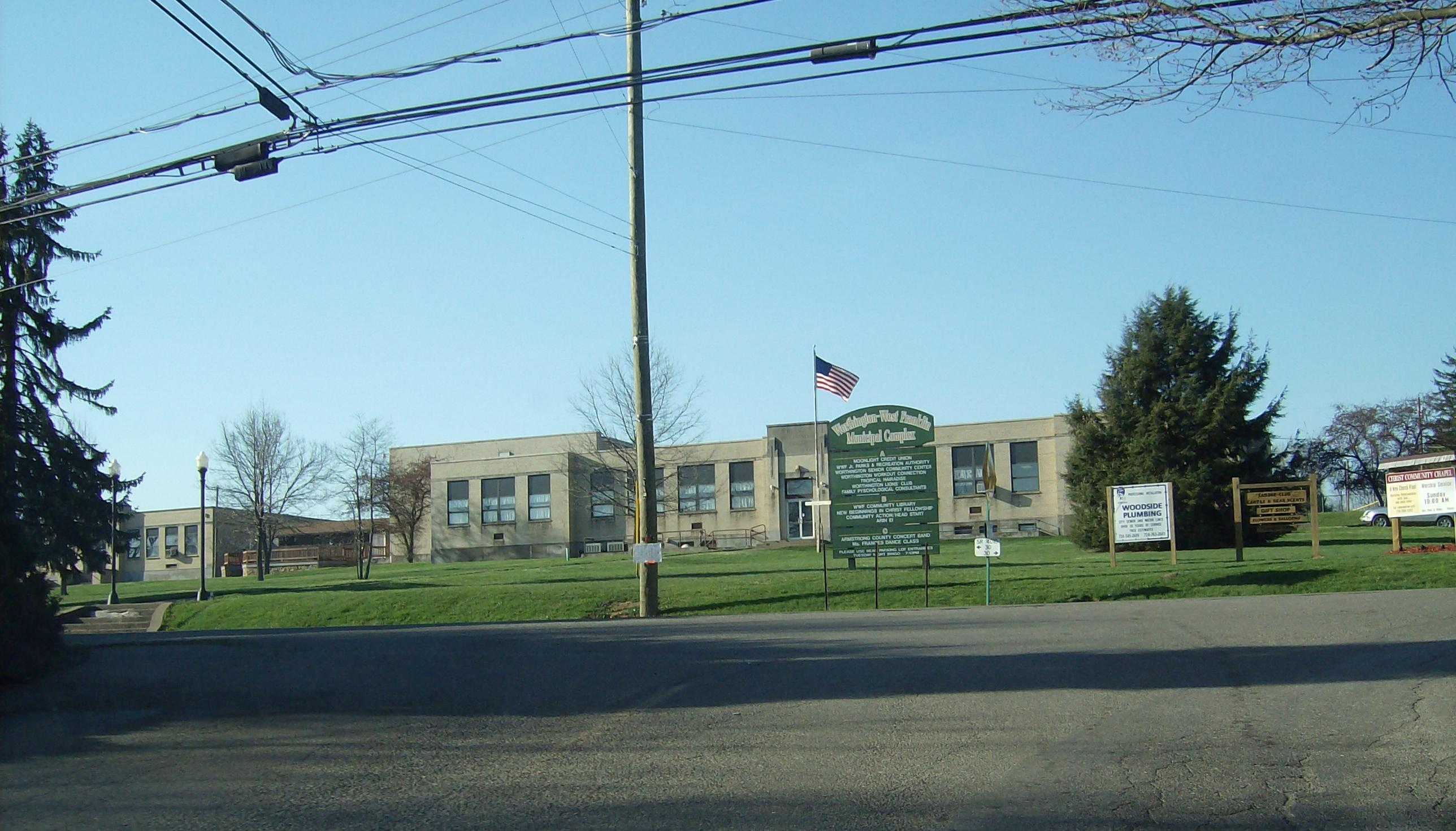 Municipal building in Worthington, Pennsylvania, United States.